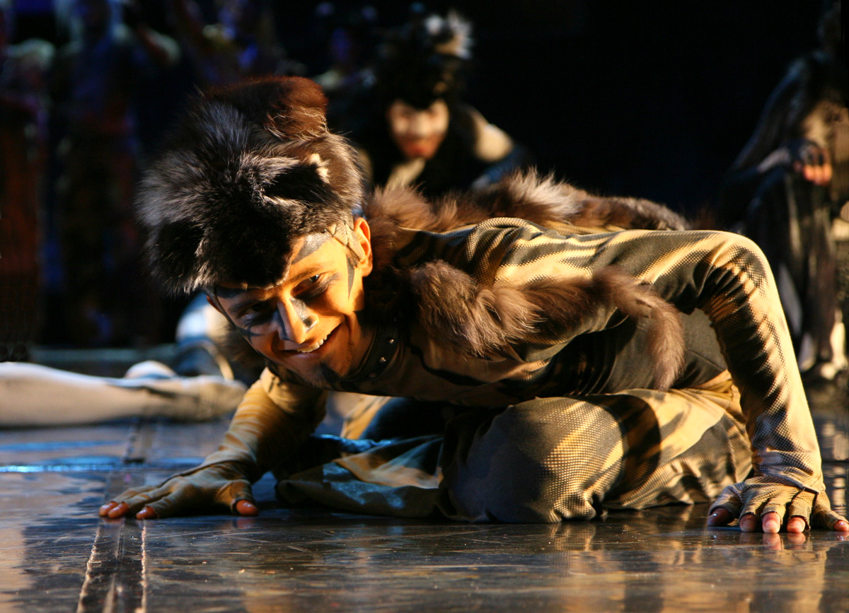 Karol Tymiński as Raptus Zuch (Rumpus Cat) in the musical "Cats" in Roma Musical Theatre in Warsaw, 5 October 2007.